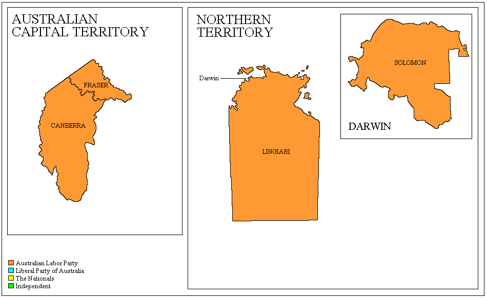 territories